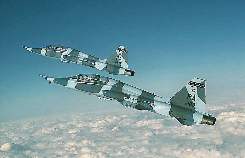 T-38s from the 12th Operations Group, Randolph AFB, Texas